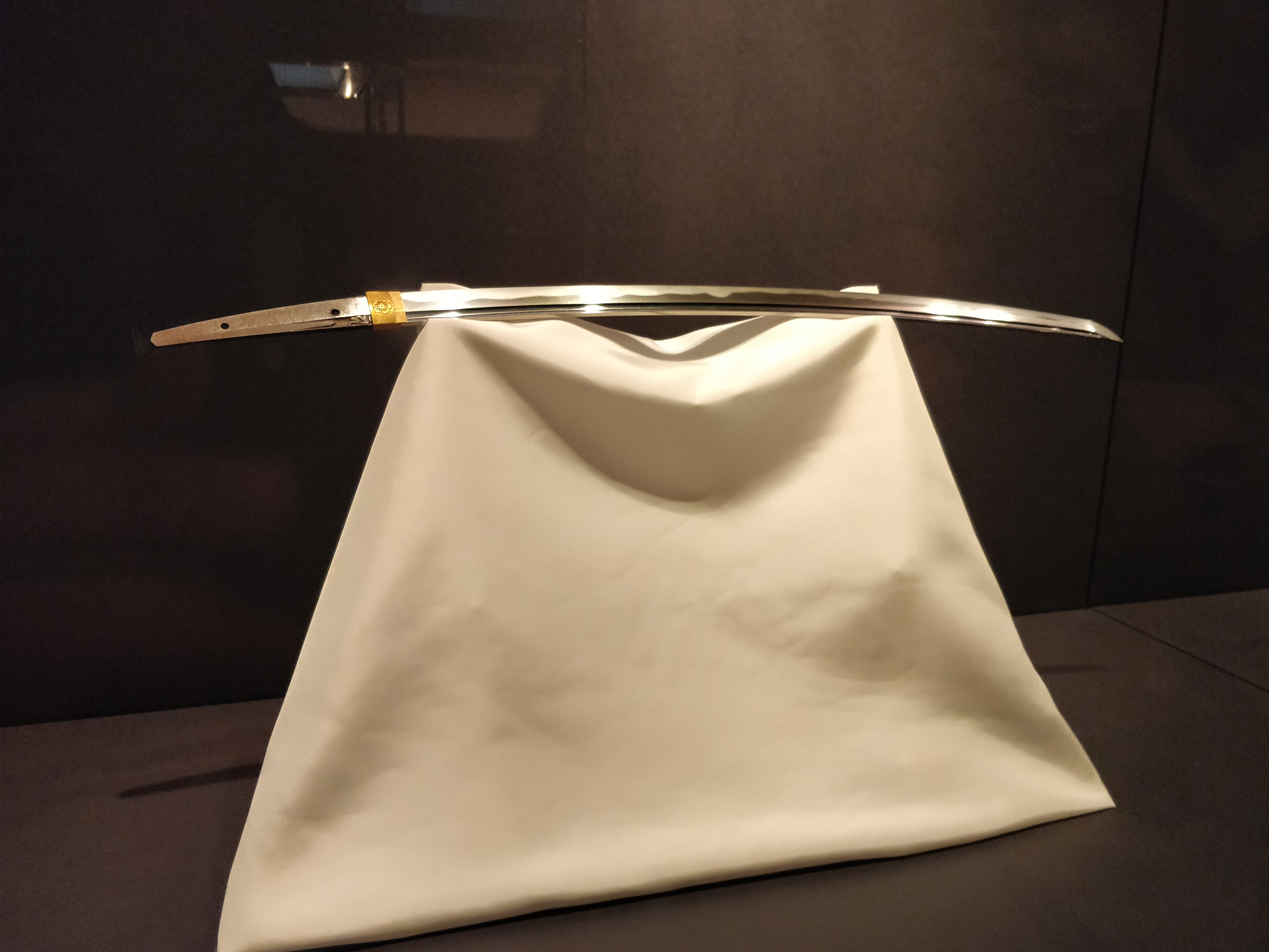 The katana Kanze Masamune in the Tokyo National Museum